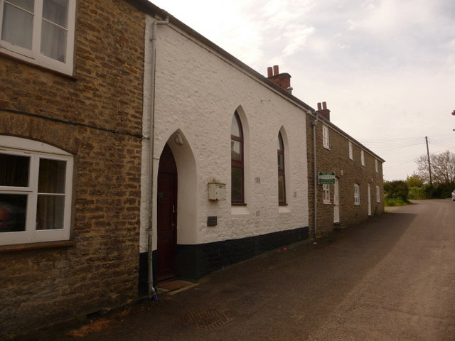 Yenston: former Methodist chapel The former place of worship makes up part of this terrace on the south side of Chapel Lane.